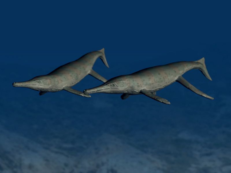 Metriorhynchus superciliosus, a marine croc from the Middle-Late Jurassic of Europe. Digital.